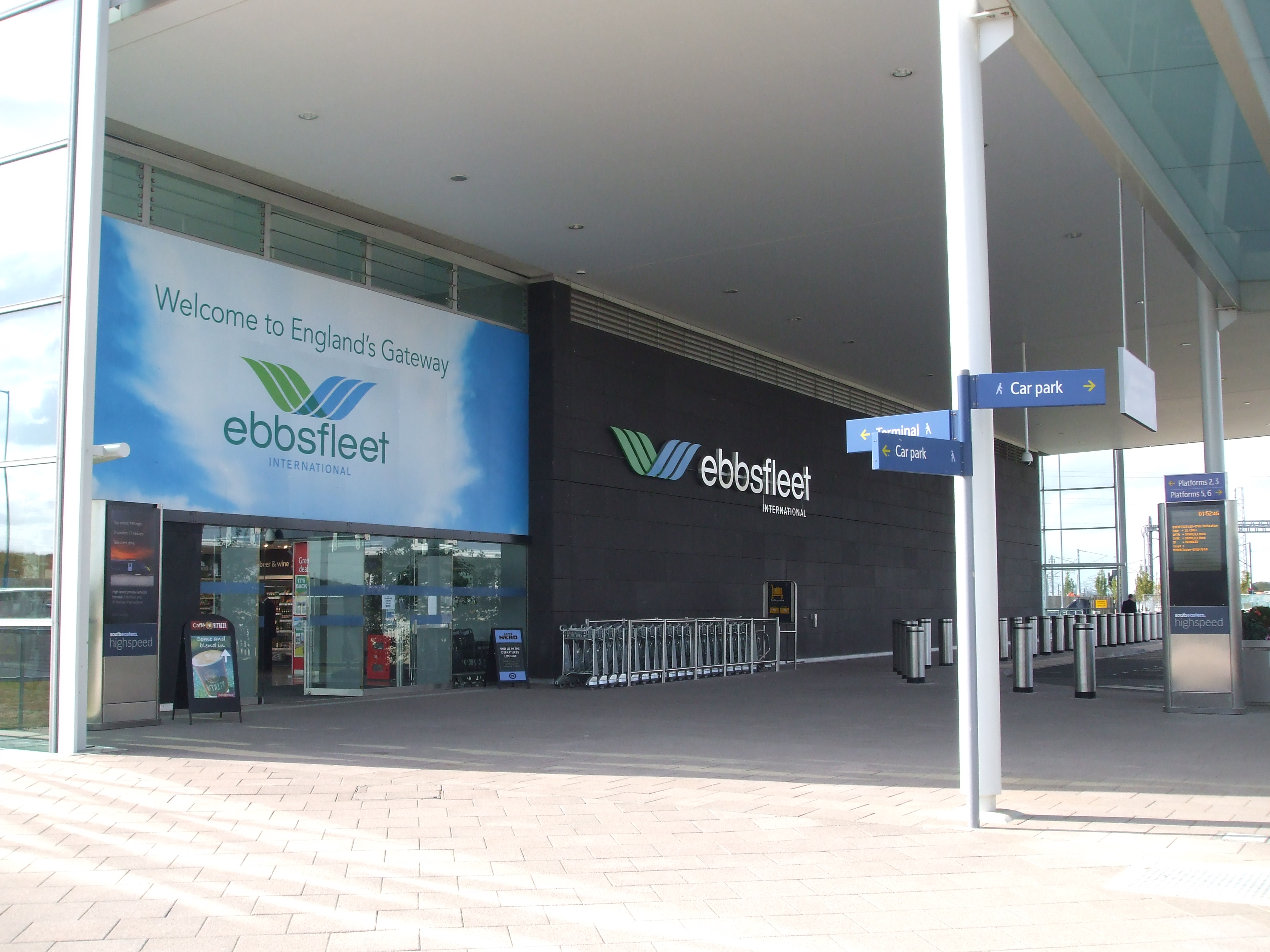 Ebbsfleet International station eastern entrance